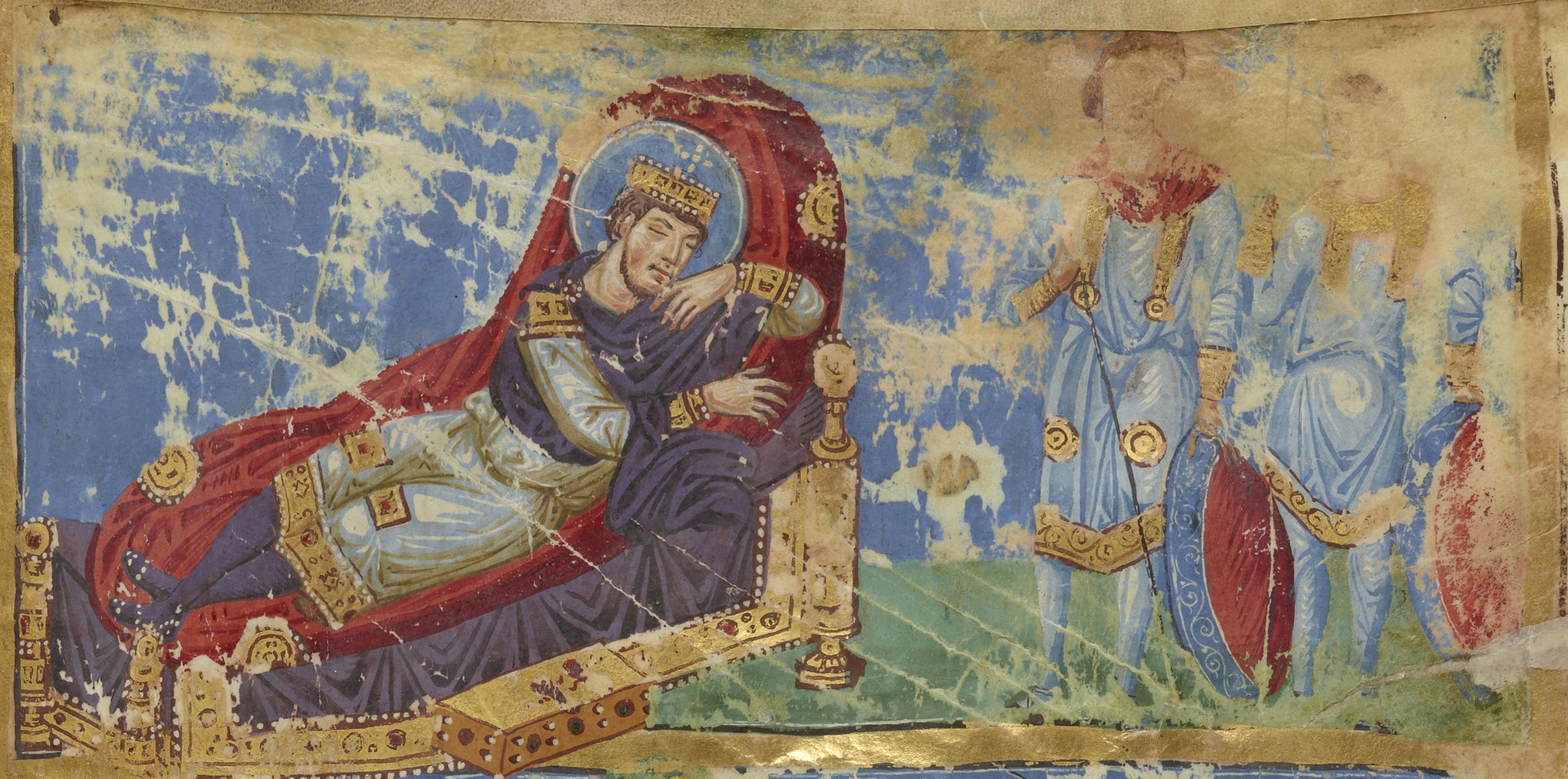 Constantine's dream in a 9th century Byzantine manuscript. According to Latin writer Lactantius, the Roman emperor Constantine had a vision in a dream, on the eve of the Battle of the Milvian Bridge in October 312 AD, which prompted his conversion to Christianity. Detail from a Greek manuscript dated 879-883 AD and containing the homilies of Gregory of Nazianzus, now in the National Library of France. (BnF MS Gr510 folio 440 recto - detail)